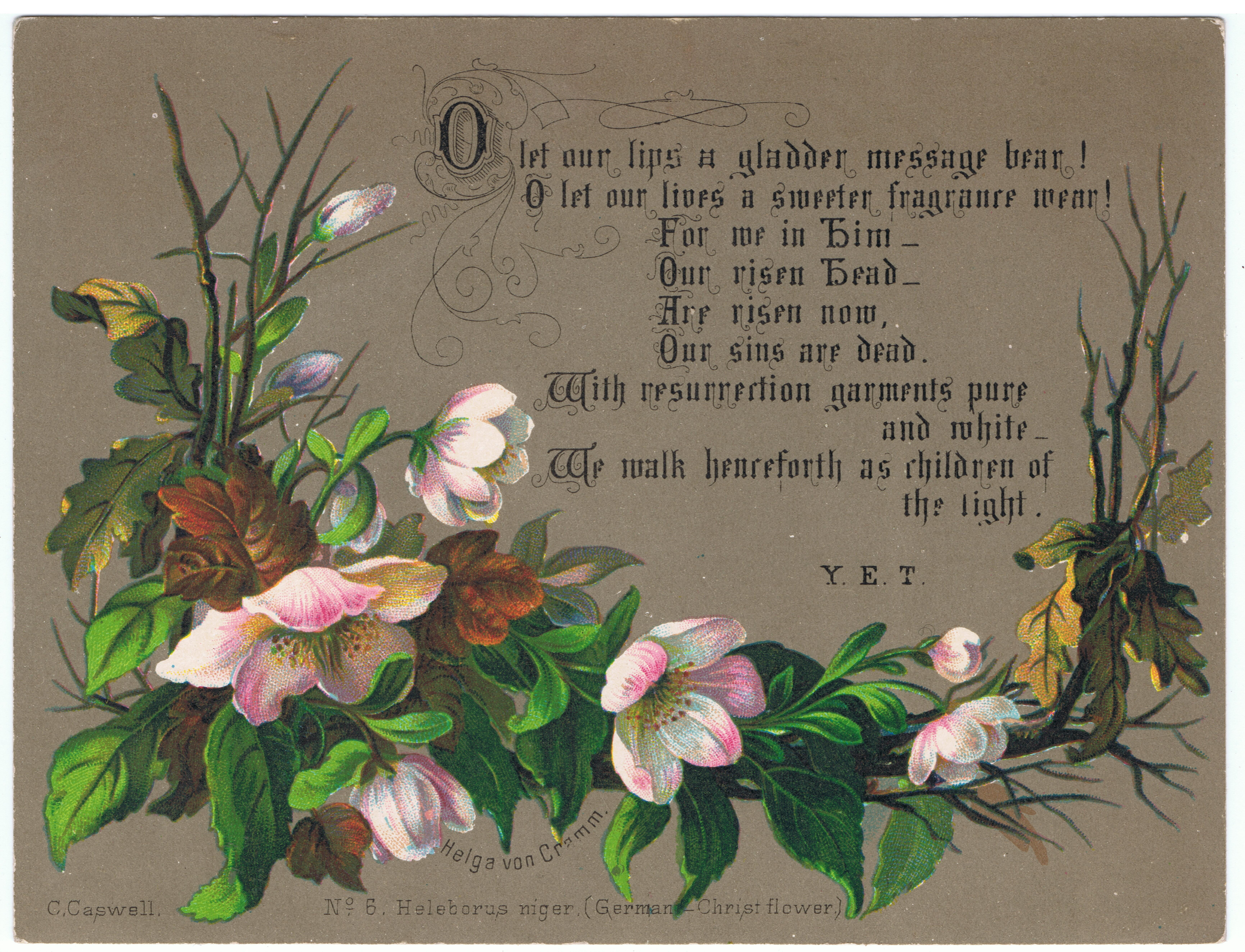 Scan (by me, R. de Salis, Rodolph (talk) 22:24, 18 January 2015 (UTC)), of No. 6., Heleborus niger (German-Christ flower), by Helga von Cramm, chromolithograph, & prayer by Y.E.T., c. 1880. (110mm x 140mm). O let our lips a gladder message bear ! O let our lives a sweeter fragrance wear !.